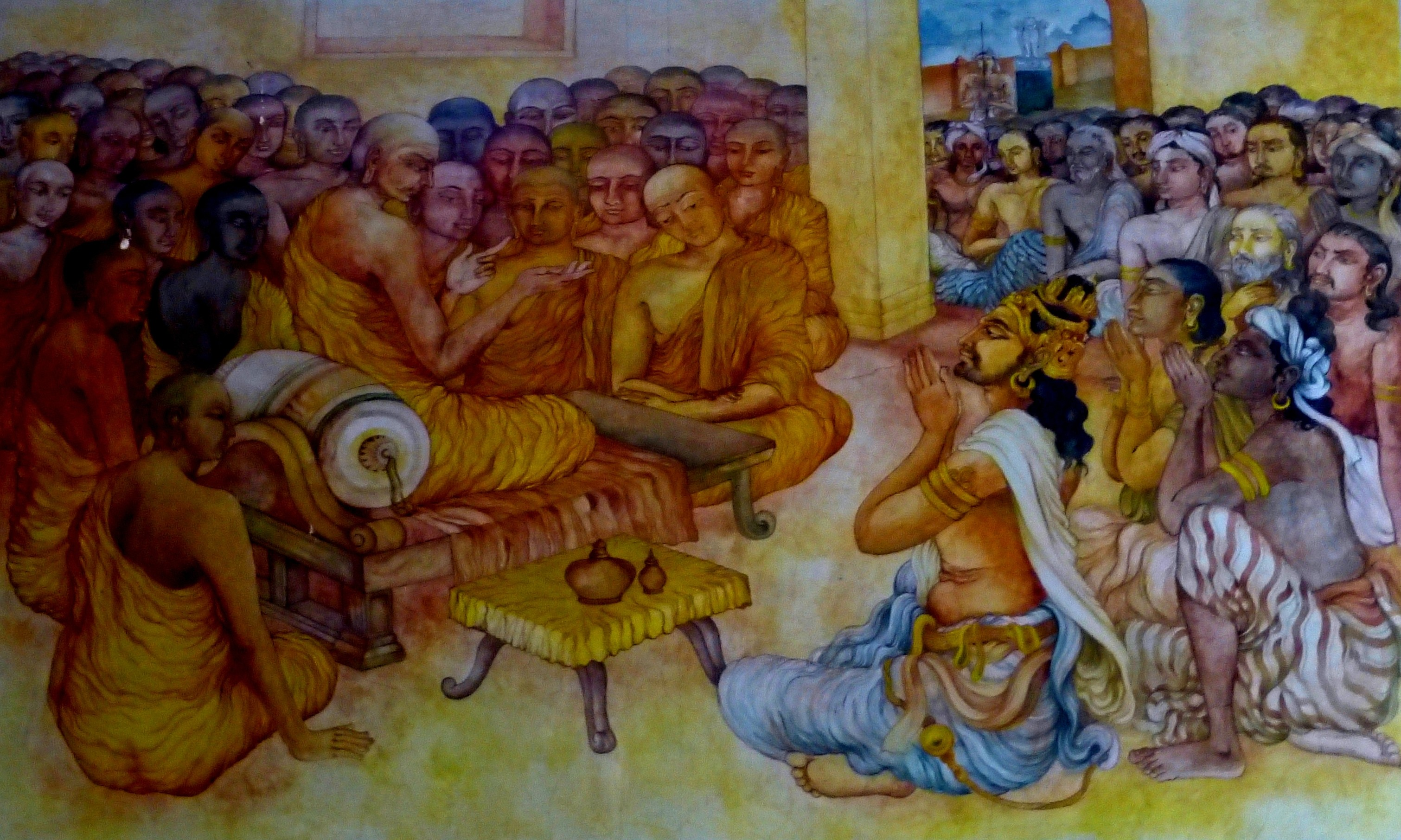 14 King Asoka at the Third Council, at the Nava Jetavana, Shravasti Photograph of murals in the Nava Jetavana temple, Jetavana Park, Shravasti, Uttar Pradesh, taken by Anandajoti.